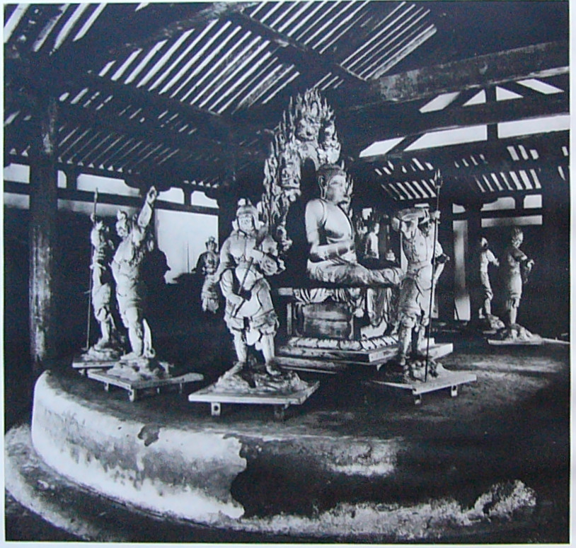 Tweleve Heavenly Generals Statues encicling Yakushi Buddha (Heian period), Clay statues, 8th century, Nata Period, Shin-Yakushi-ji, Nara, Japan